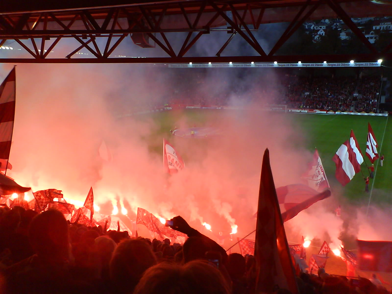 The football match Brann-Lyn at Brann Stadion in Bergen, Norway, 8th October 2007 during the entrance of the players.